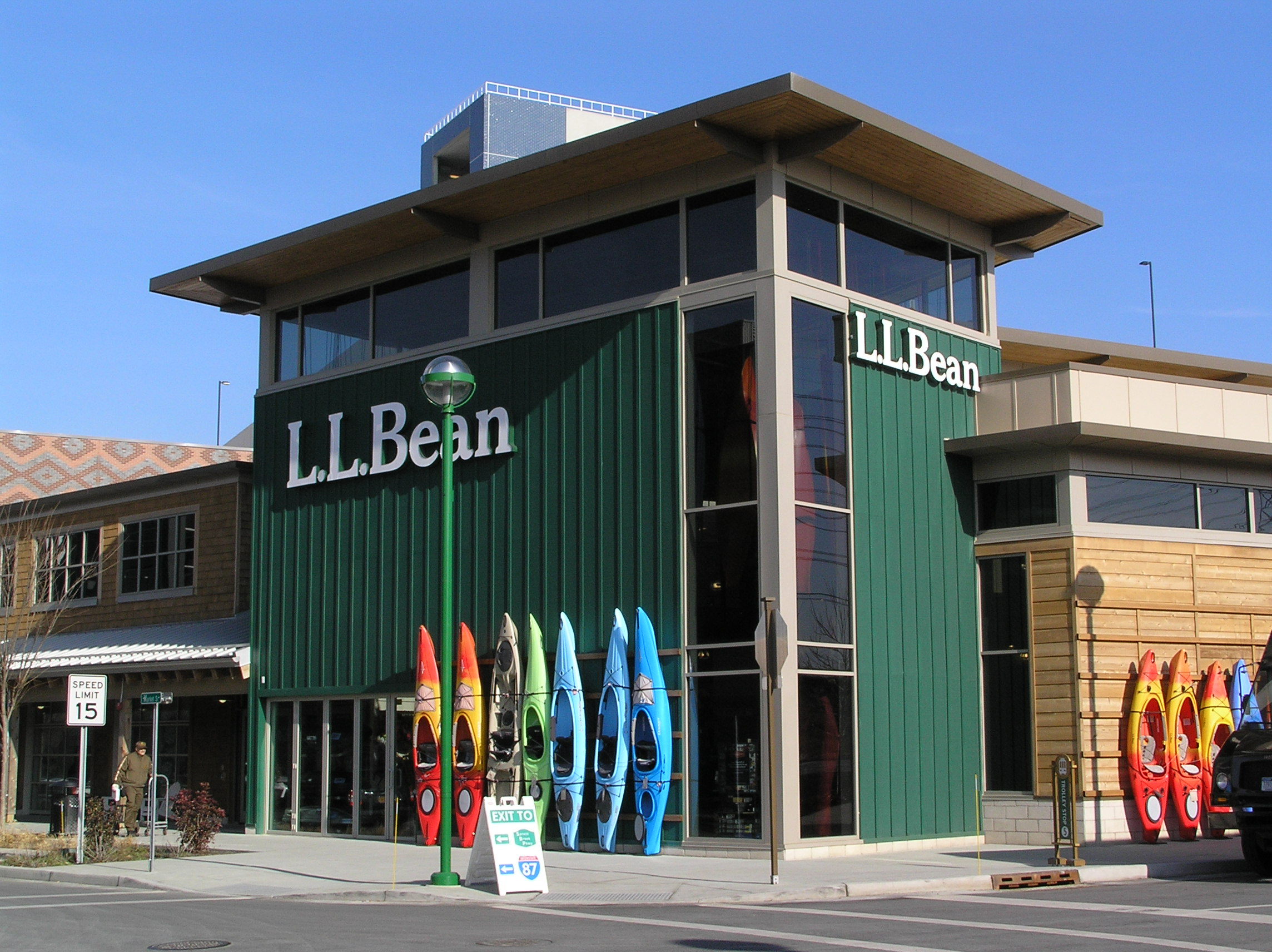 L.L.Bean opened a new store at the Ridge Hill Shopping Center in Yonkers, NY. A balmy January day provided an opportunity for a good picture.